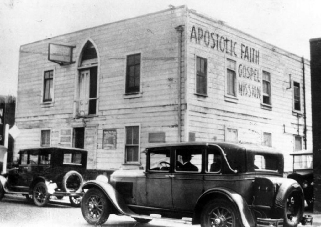 The AFM on Azusa Street in 1907. Image obtained from and is in the public domain.